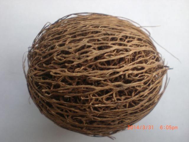 A dried "Wel Kaduru", used as a ball in elle in ancient times.